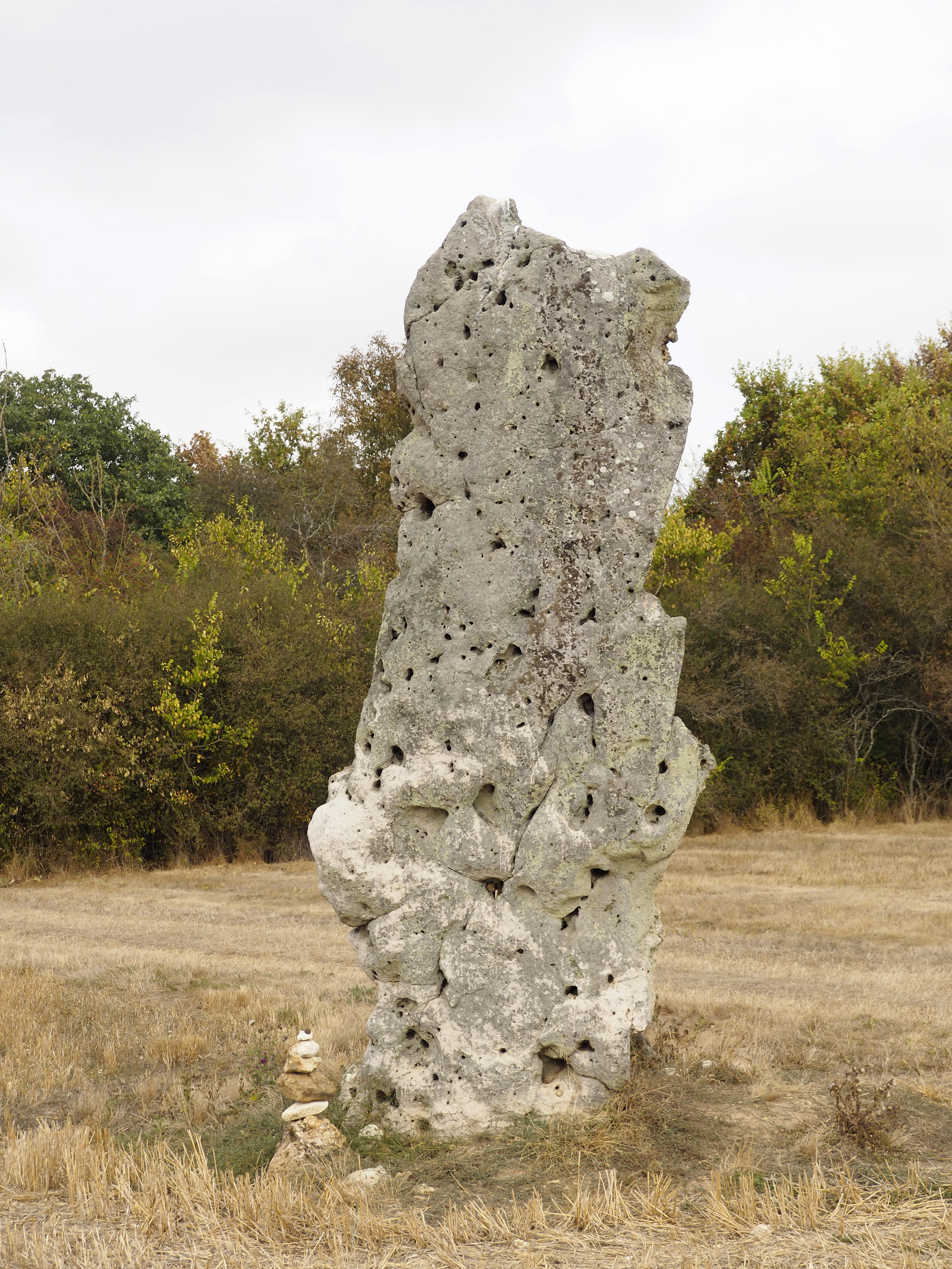 Menhir called Grande Pierre or Pierre de Minuit (source: Mérimée) .